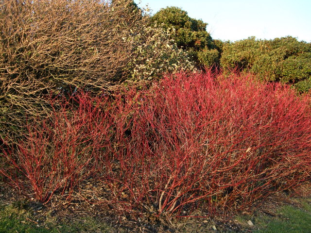 Dogwood Shrubs in East Brighton Park